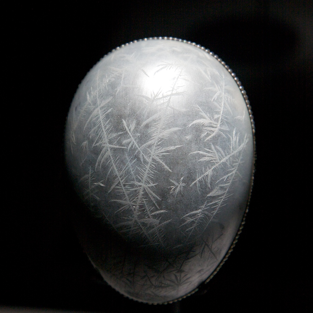 The Nobel Ice Egg, (phonetic: [nobél]) sometimes also referred to as the Snowflake egg, is a jewelled enamelled Fabergé Easter egg made under the supervision of the Russian jeweller Peter Carl Fabergé, for the Swedish-Russian oil baron and industrialist Emanuel Nobel between 1913 and 1914.